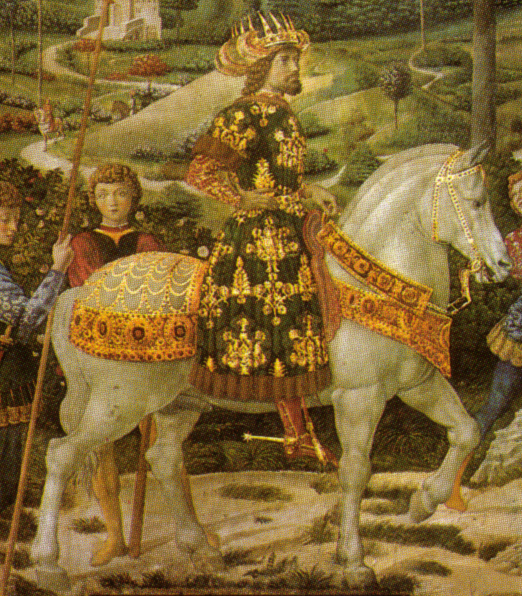 The byzantine emperor Ioannes VIII Palaialogus. Detail from the fresco by Benozzo Gozzoli, in the "Cappella dei Magi", at Palazzo Medici Riccardi in Florence, Italy.